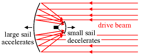 This image illustrates Robert L. Forward's scheme for slowing down an interstellar light-sail in the destination star system. I, the author of this image, hereby release it for use under the Creative Commons "Share Alike" license. --Christopher Thomas (talk) 17:20, 14 August 2009 (UTC)